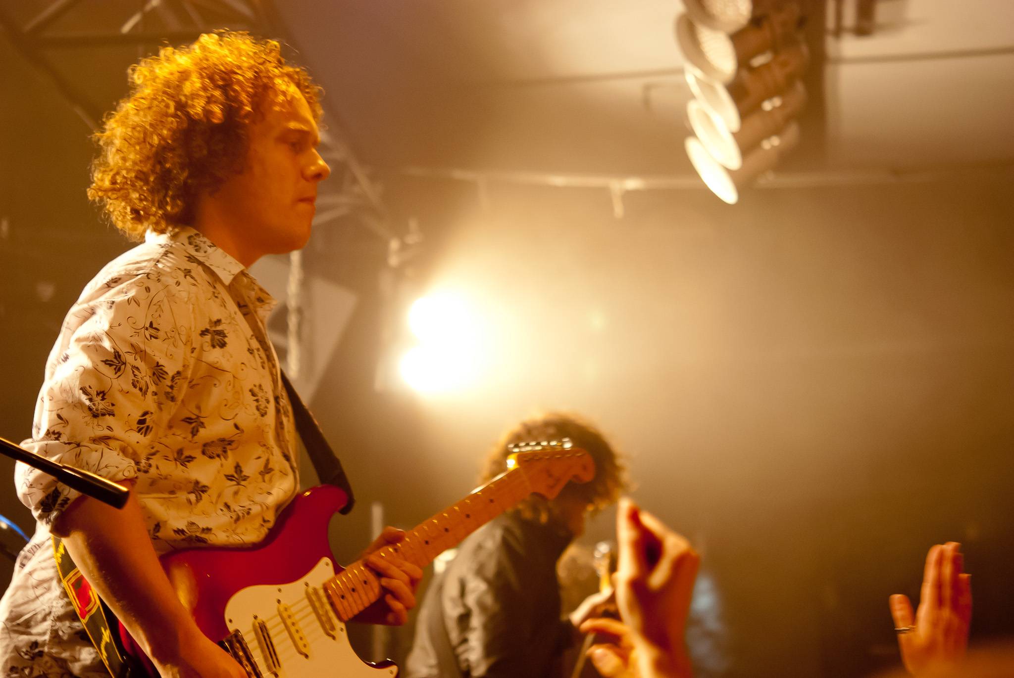 Taking of this photo was in cooperation with Rock-Serwis Publishing House (homepage) Anathema podczas trasy koncertowej w Polsce 6 października 2012 w Mega Clubie w Katowicach